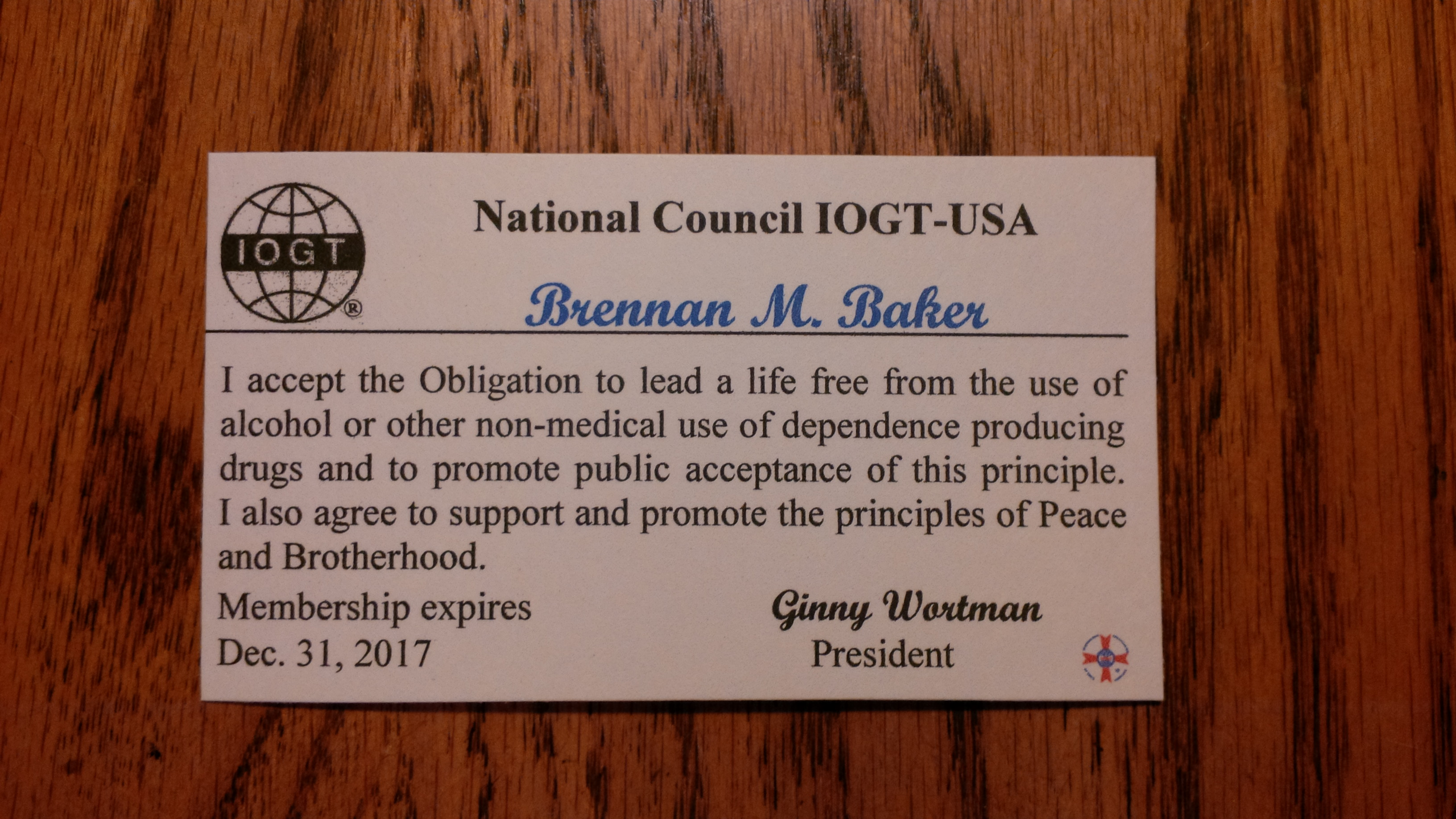 Photo of an International Organisation of Good Templars (IOGT) membership card